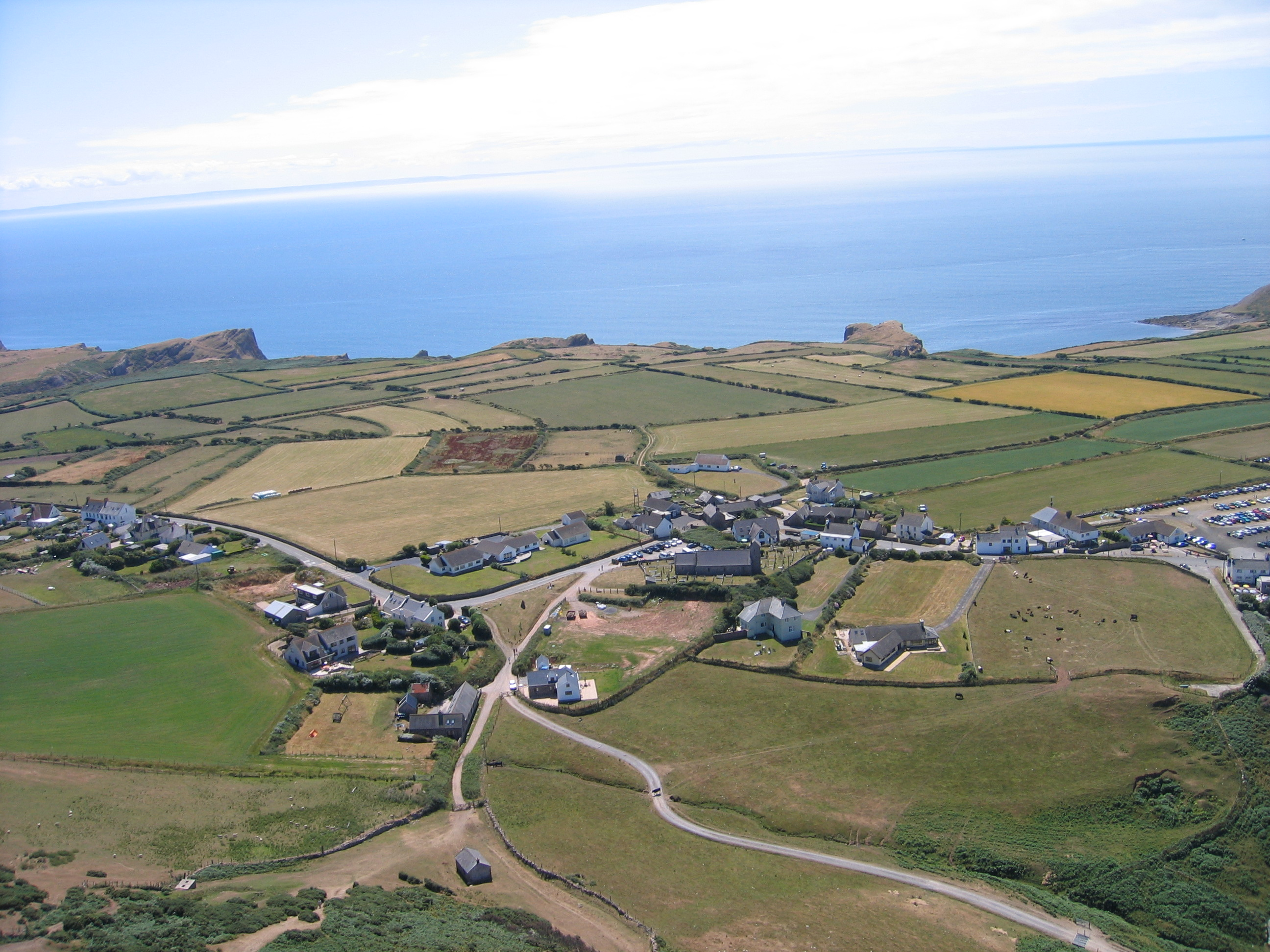 Taken by me flying a paraglider over Rhossili Down. Rhossilli is a small village and community on the southwestern tip of the Gower peninsula, near Swansea in Wales.